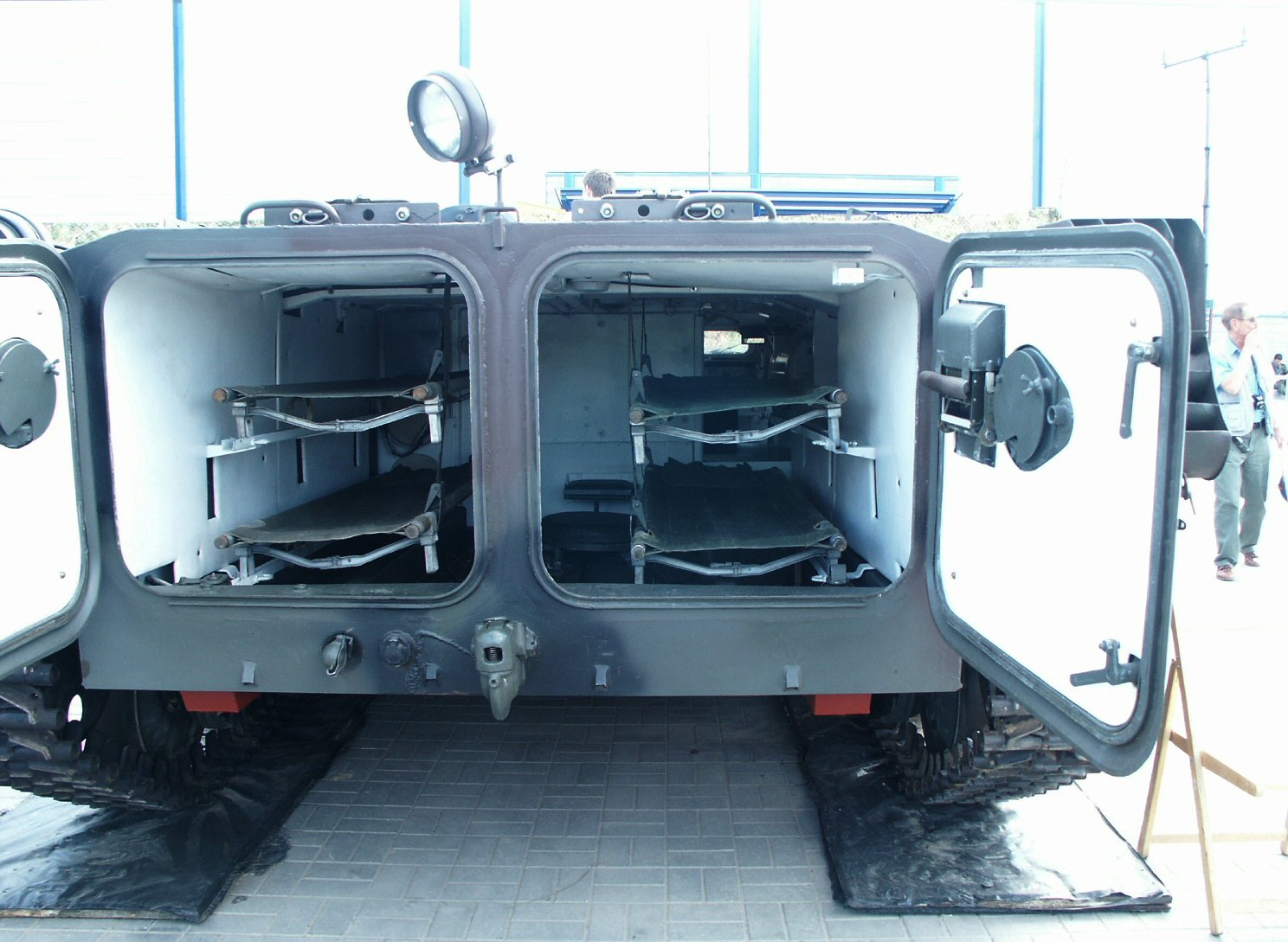 Polish Army ambulance MTLB Lotos (single prototype made in Poland, not produced in series)